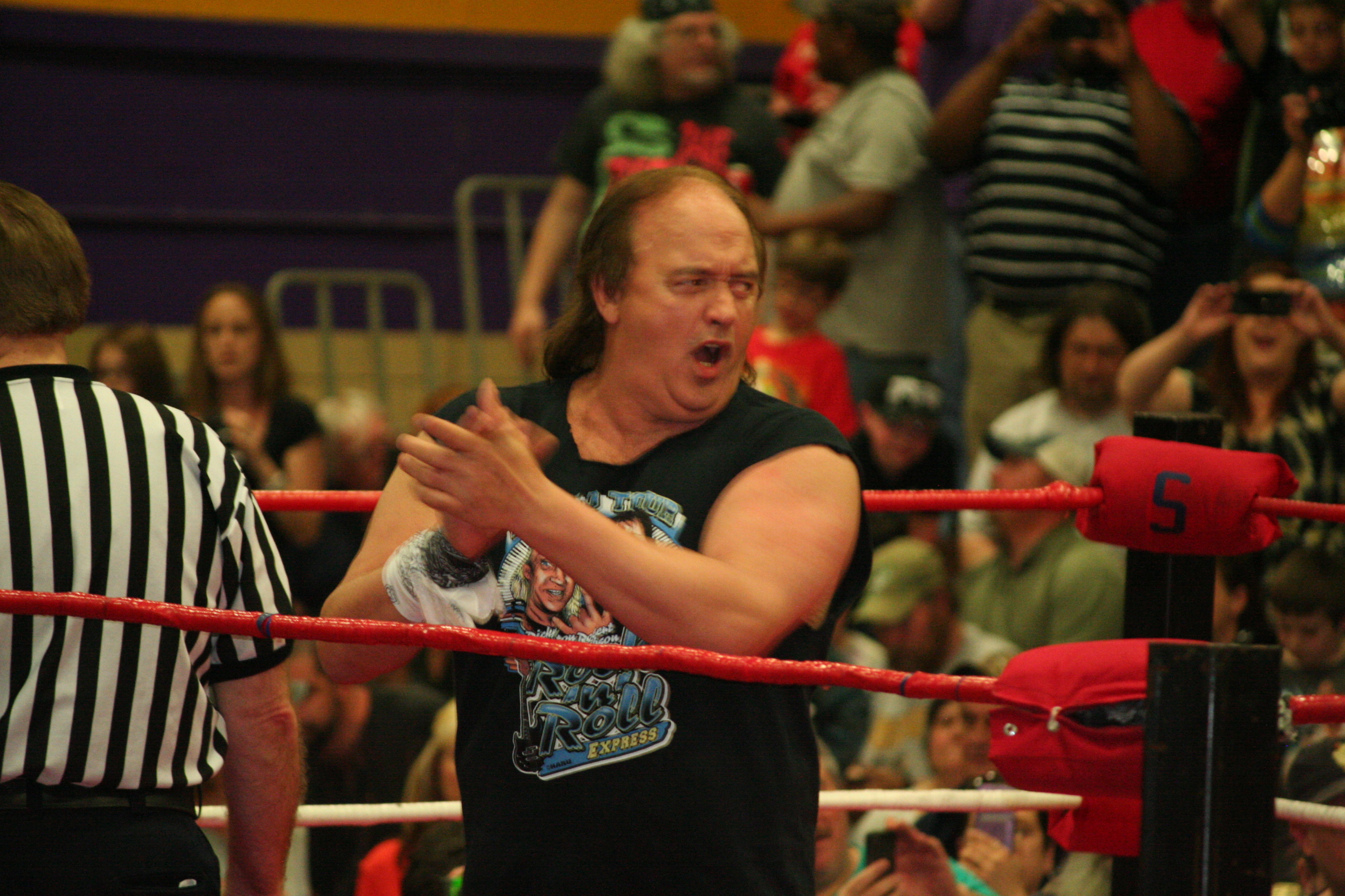 legendary wrestler robert gibson